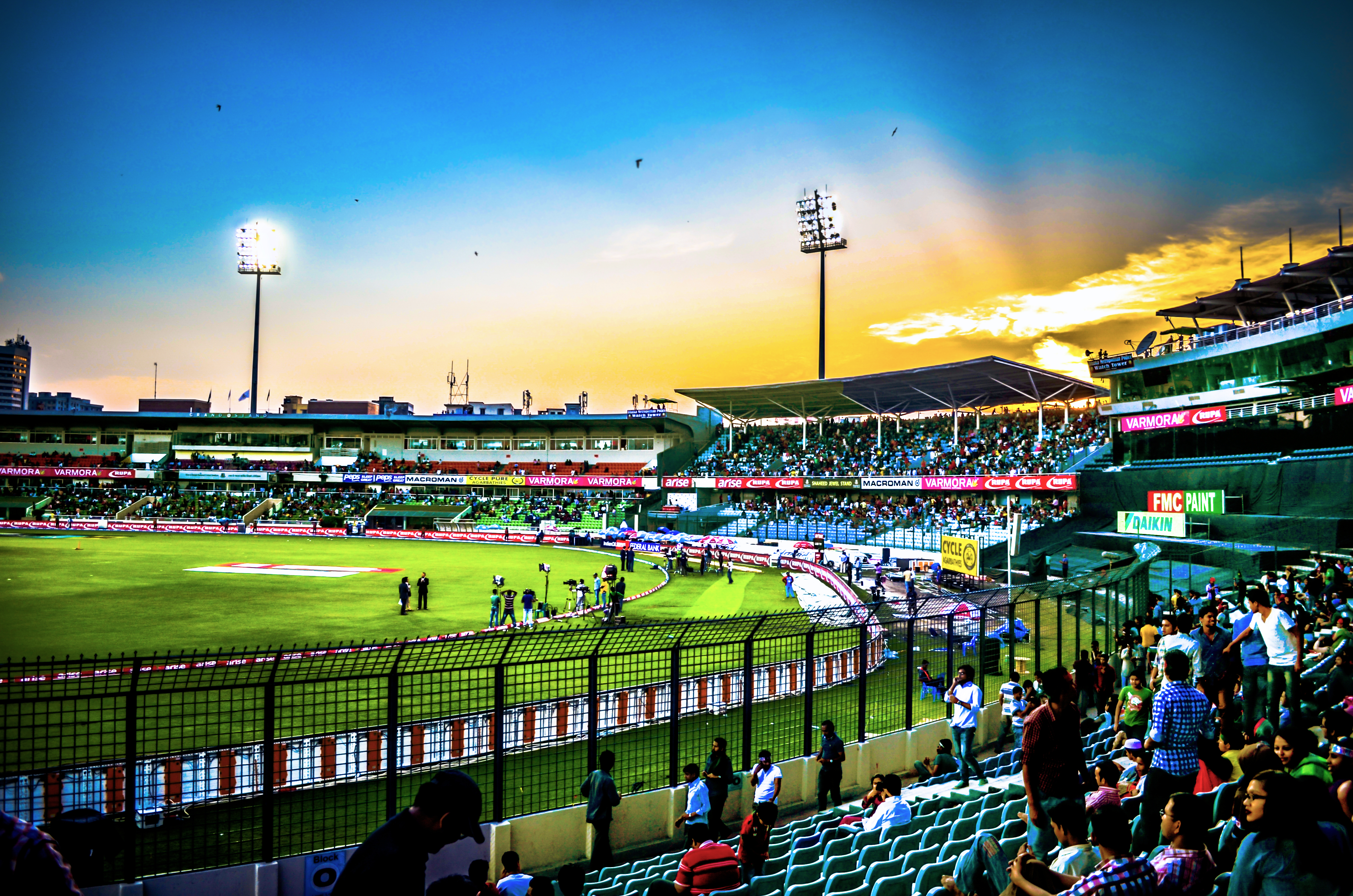 The Sher-e-Bangla National Cricket Stadium (SBNCS; Bengali: শের-ই-বাংলা জাতীয় ক্রিকেট স্টেডিয়াম), also called Mirpur Stadium, is a cricket ground in Dhaka, the capital of Bangladesh.